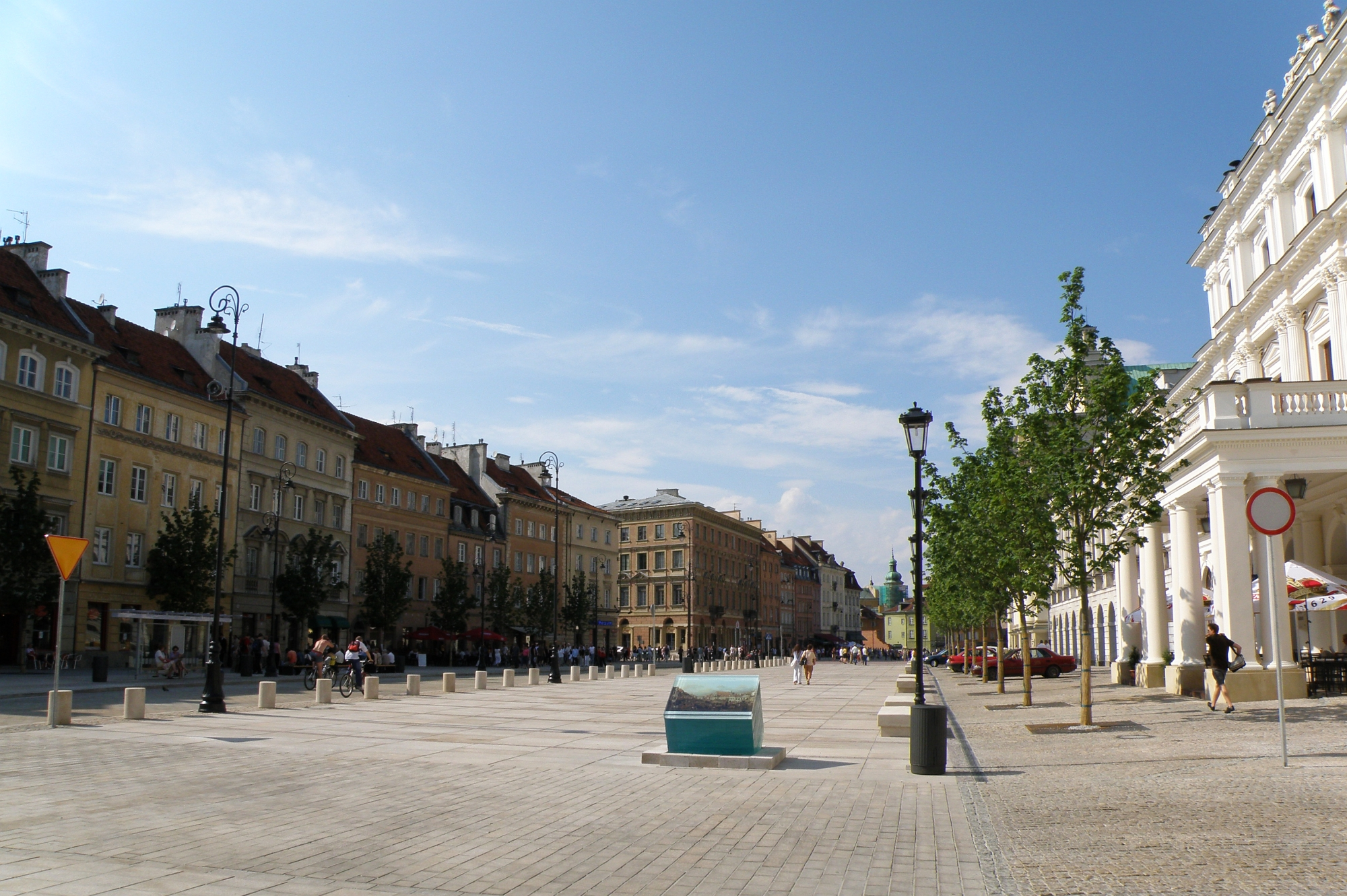 Poland, Krakowskie Przedmieście Street in Warsaw